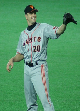 Scott Mathieson＿20